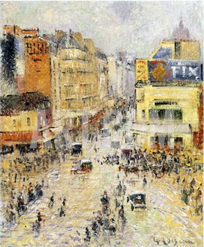 Boulevard Hausmann, Paris